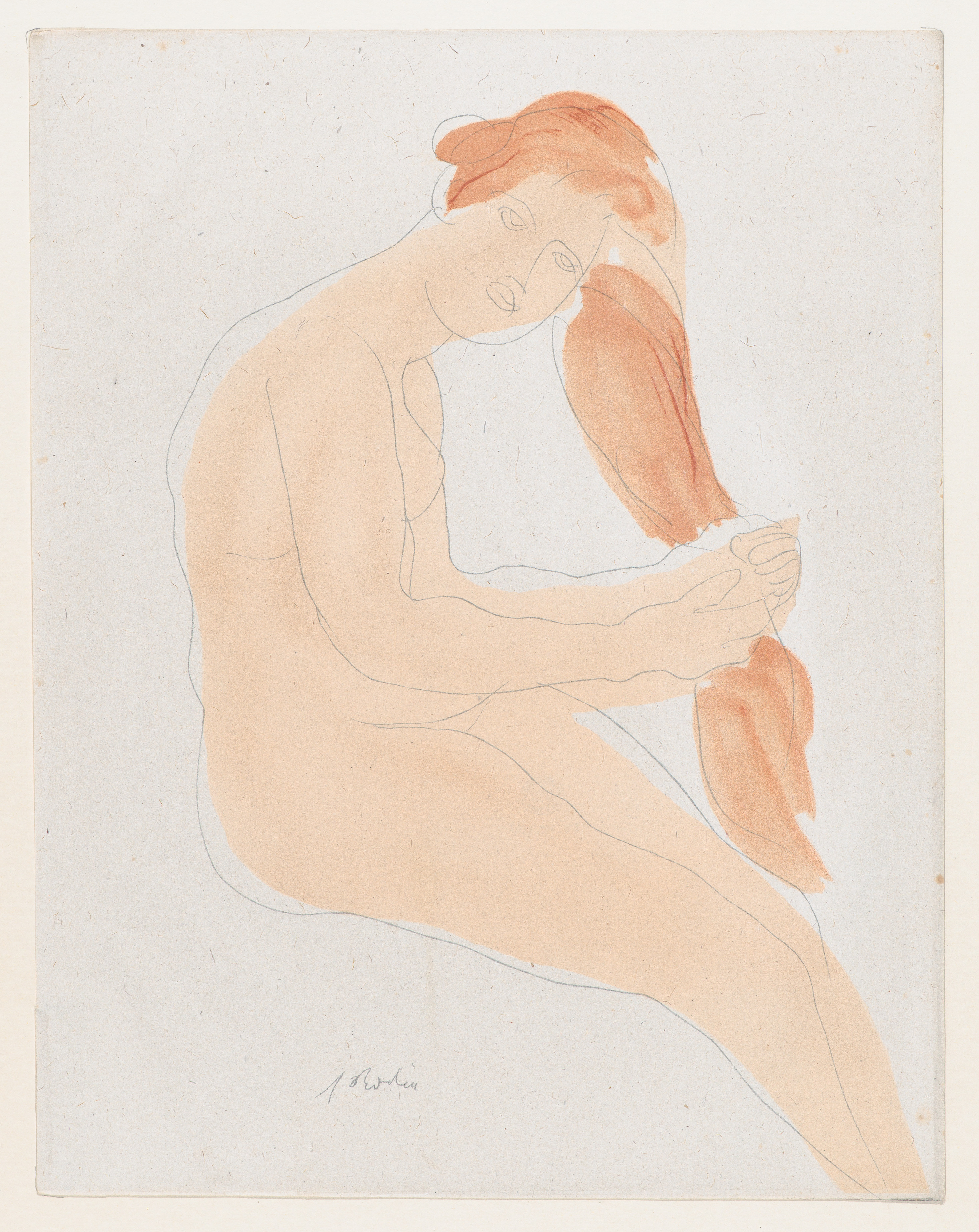 Print; Prints